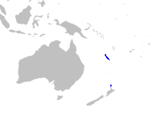 Plant family Xeronemataceae distribution map